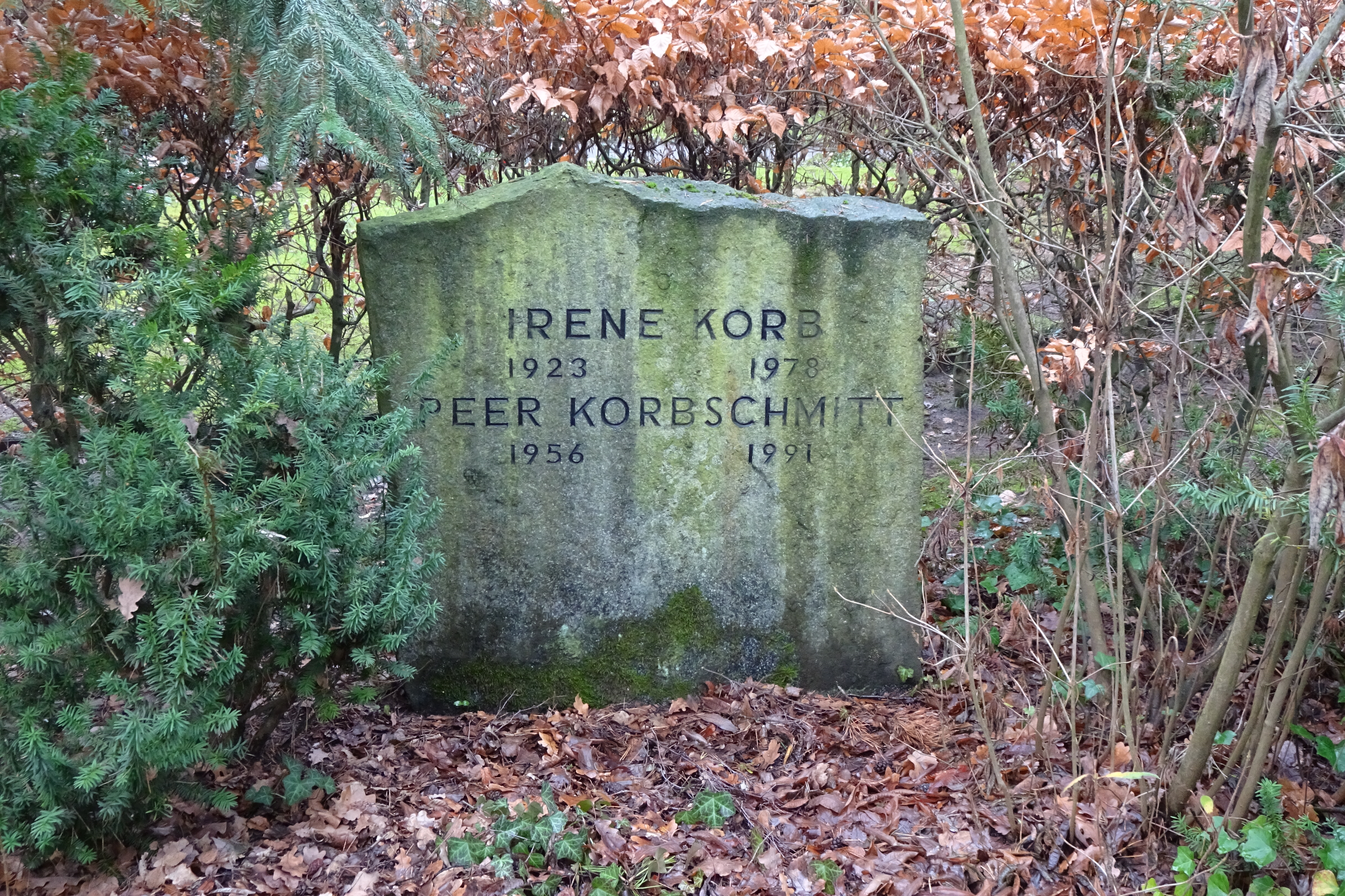 Grave of German actress Irene Korb in Waldfriedhof Kleinmachnow, (Kleinmachnow near Berlin)